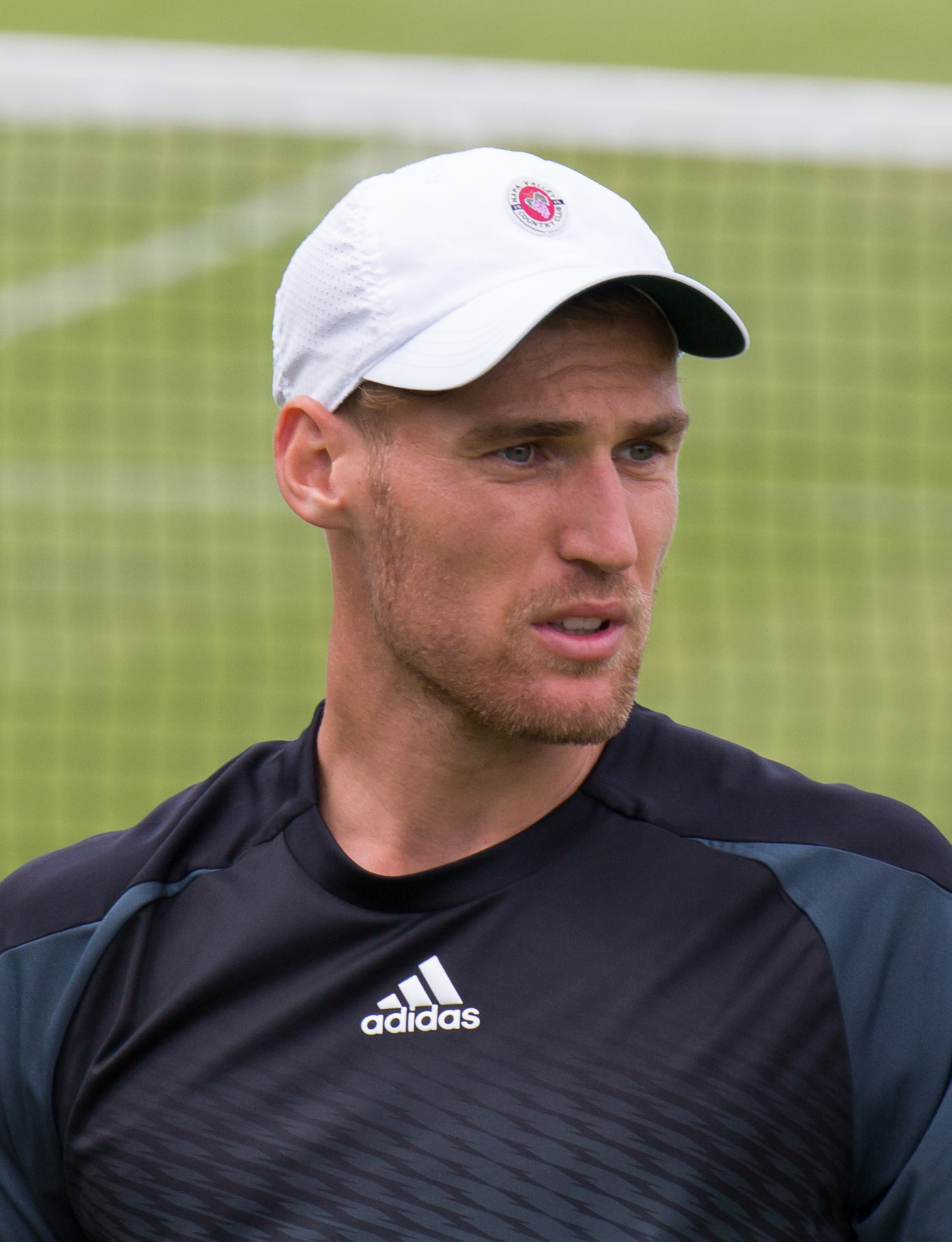 Daniel Smethurst of Great Britain at the Aegon Surbiton Trophy in Surbiton, London.